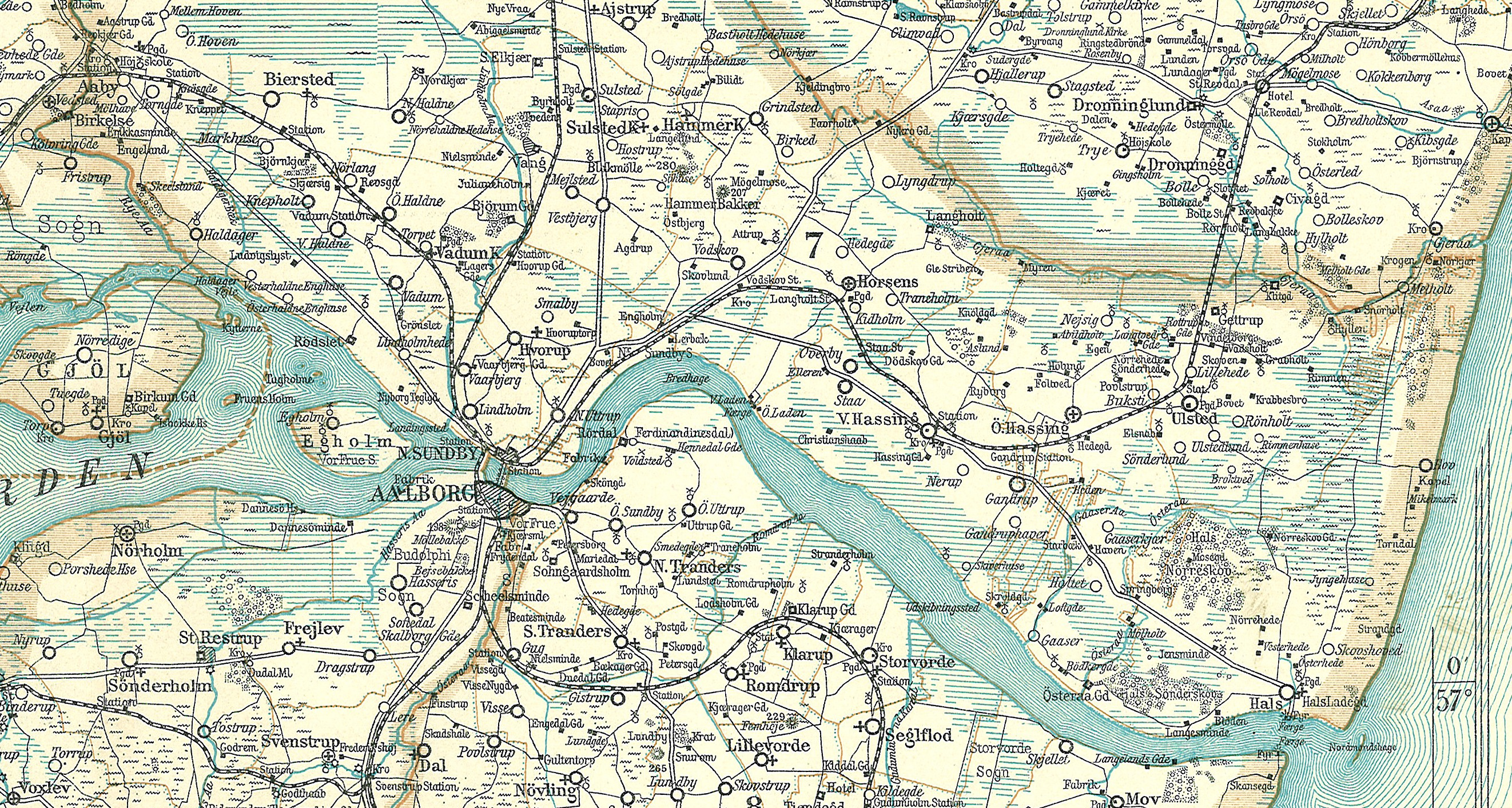 Map of Kær Herred in Aalborg County in Denmark